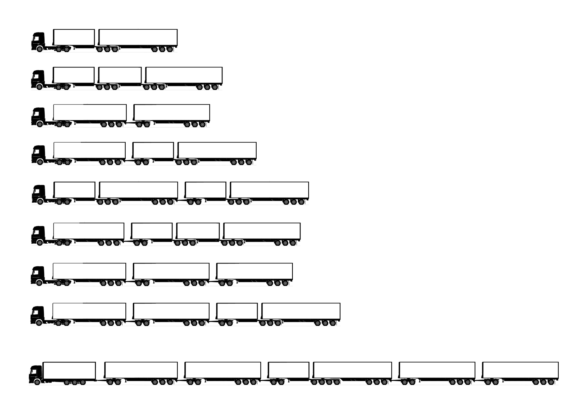 Road train configurations allowed in Australia.